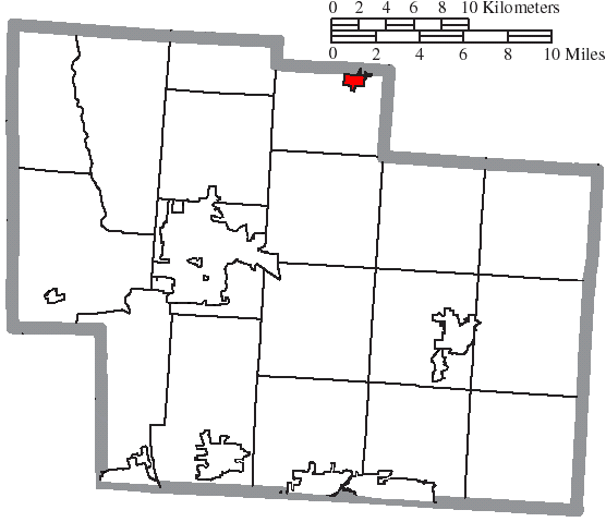 Map of the municipal and township boundaries of Delaware County, Ohio, United States, as of the 2000 census, with the location of the village of Ashley highlighted. Township borders are shown only in unincorporated areas in order to differentiate incorporated and unincorporated areas more clearly.